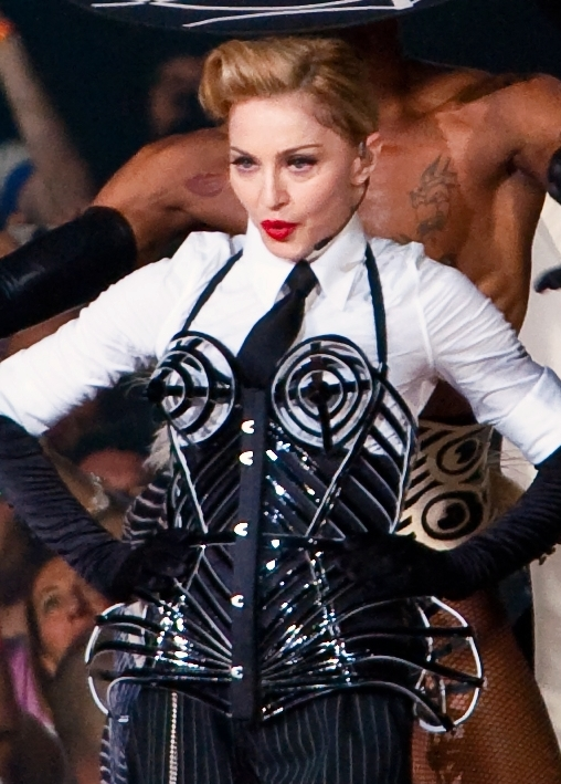 Madonna MDNA Concert Live _D7C31582